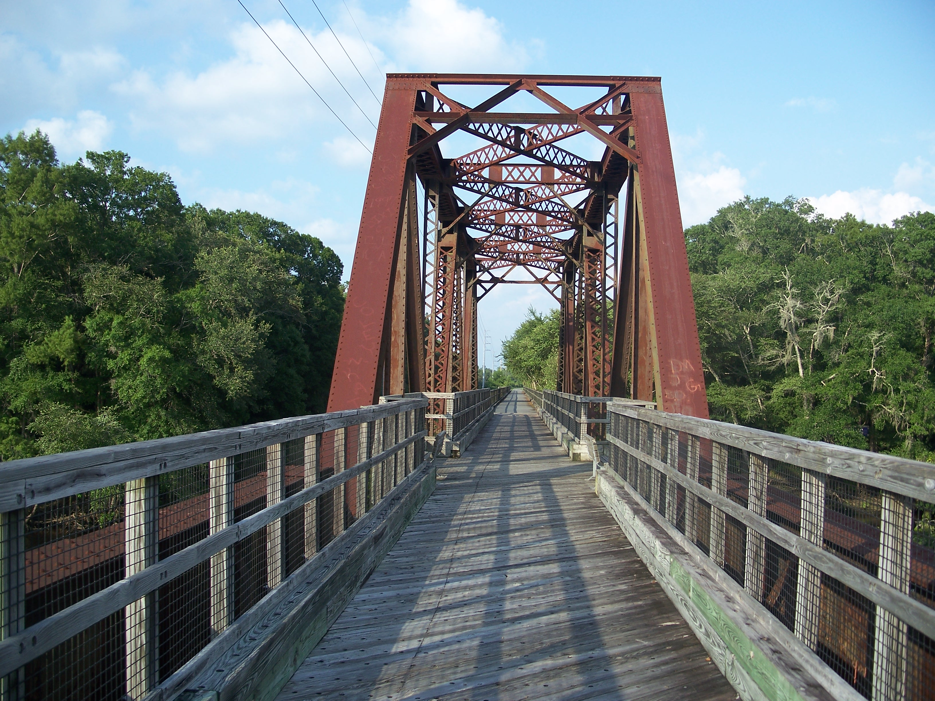 Old Town, Florida: Nature Coast State Trail: Trestle bridge across the Suwannee River